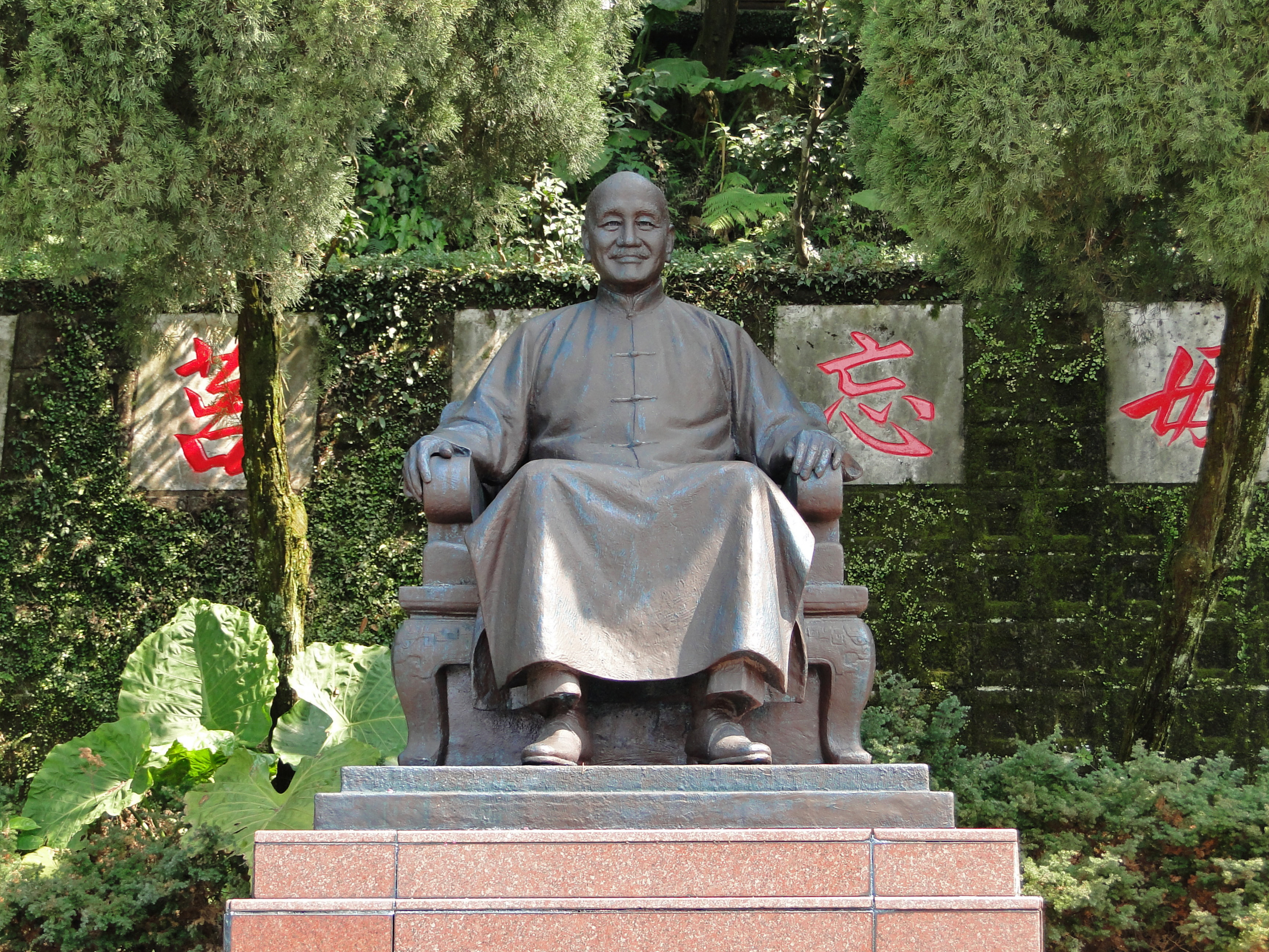 Statue of Chiang Kai-shek in Yangming Park, Yangmingshan National Park, Taipei, Taiwan